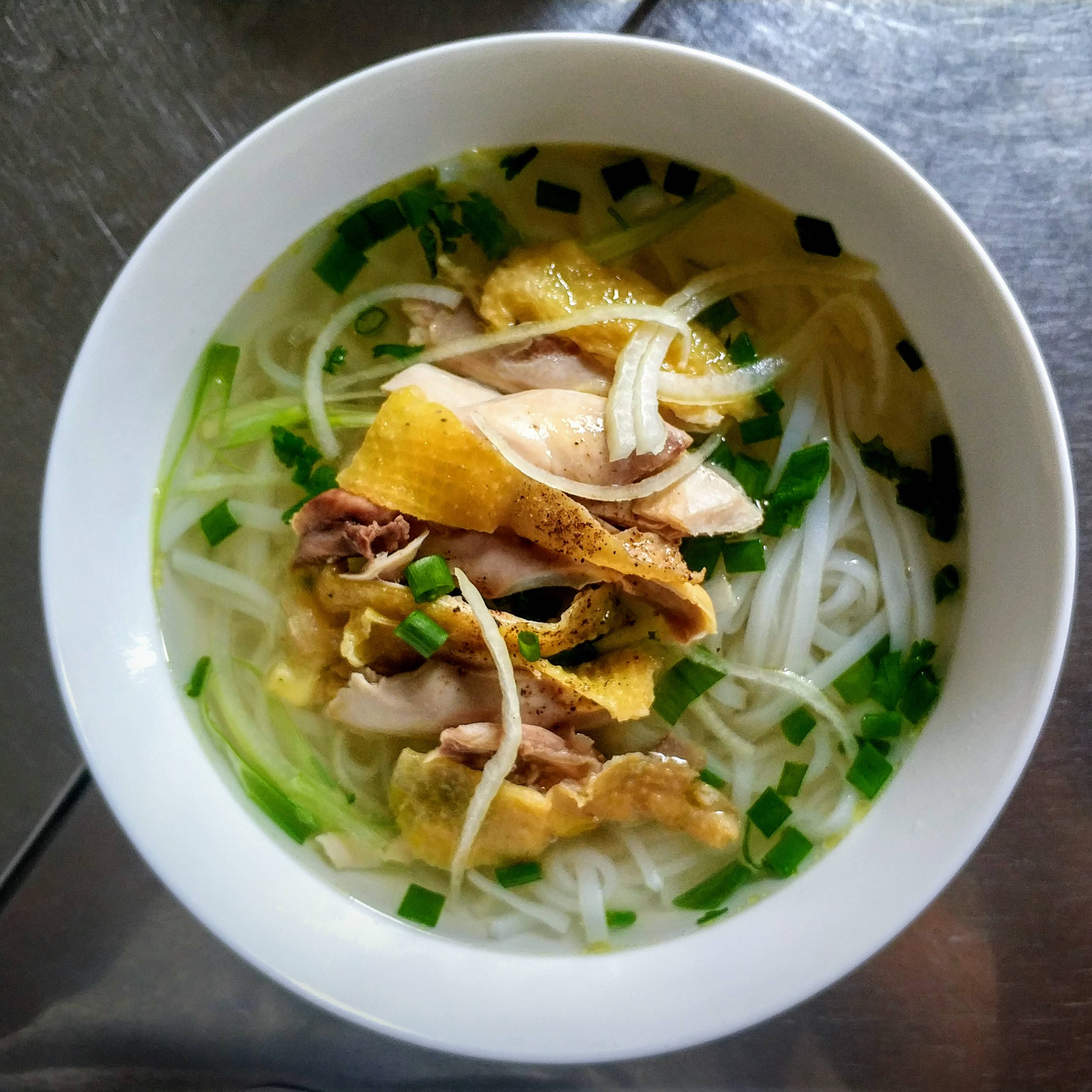 Vietnamese chicken soup (Pho)